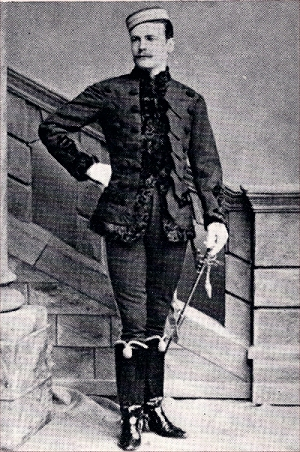 (1879 publicity photograph of George Power in The Pirates of Penzance. Public domain.)